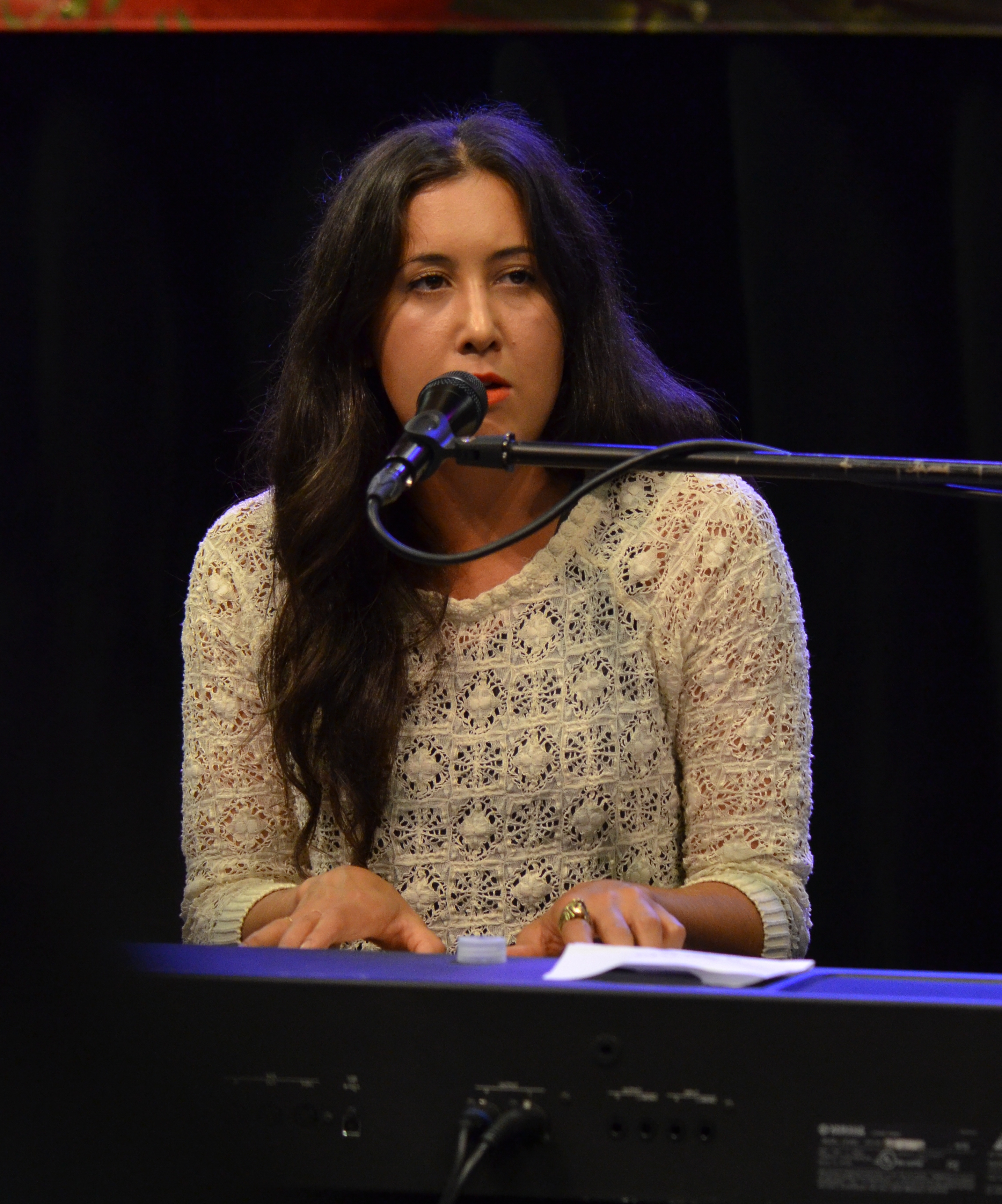 Vanessa Carlton performing live at Best Buy in August 2011